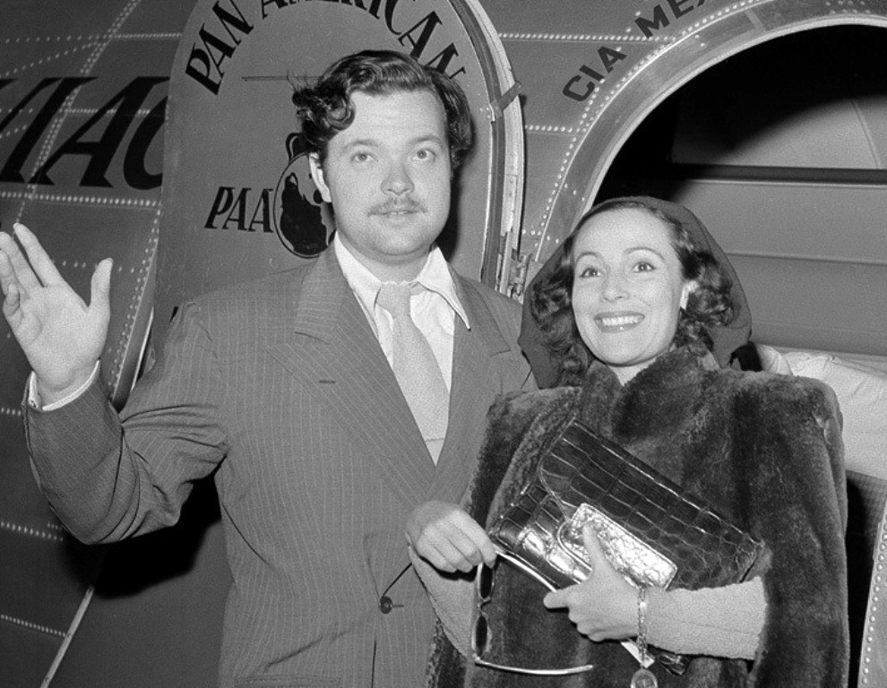 Orson Welles & Dolores del Rio, 1941